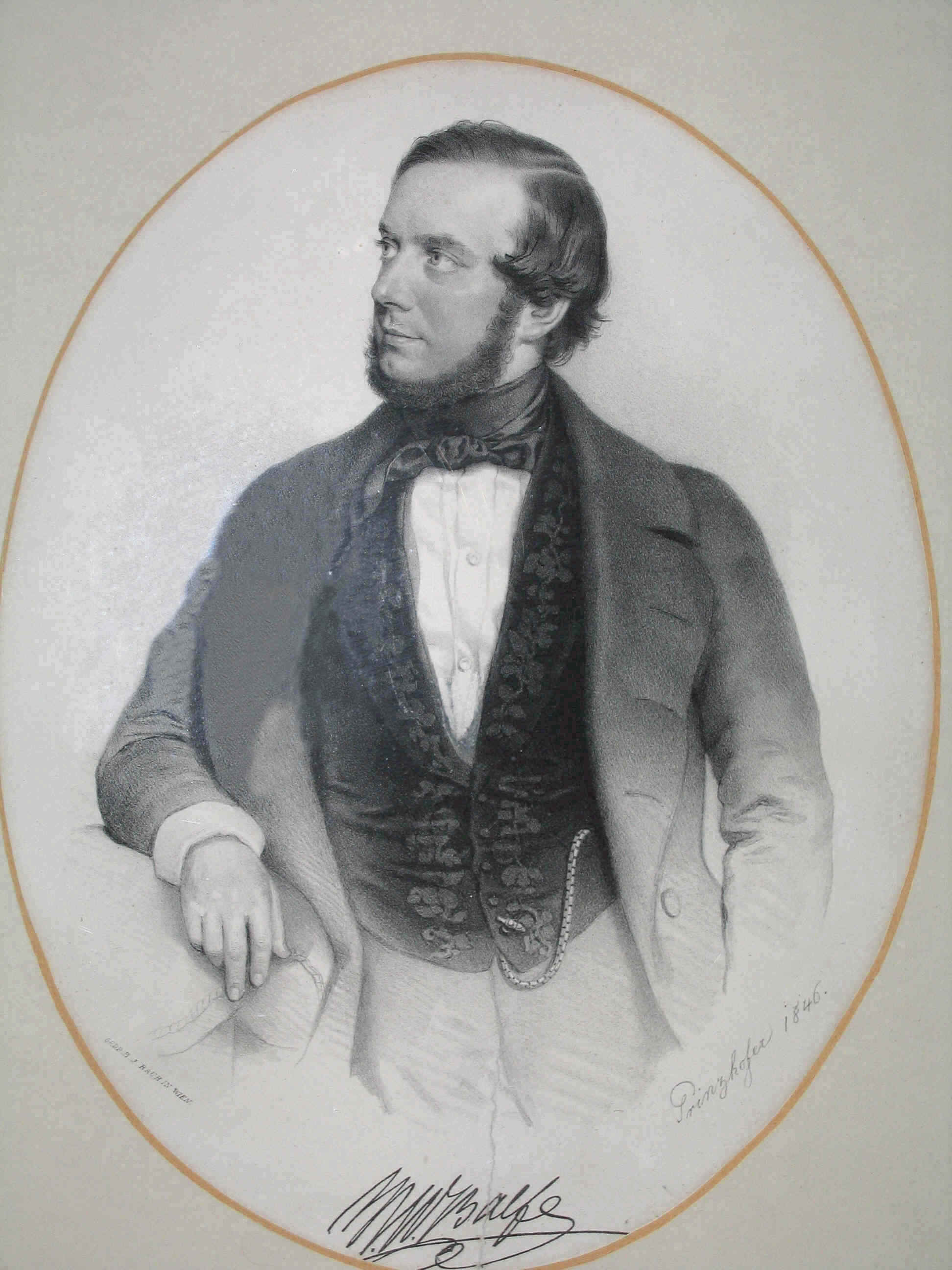 Michael William Balfe, age 38, in Vienna (1846) at the time of the premiere of Die Zigeunerin, the German version of his opera, The Bohemian Girl